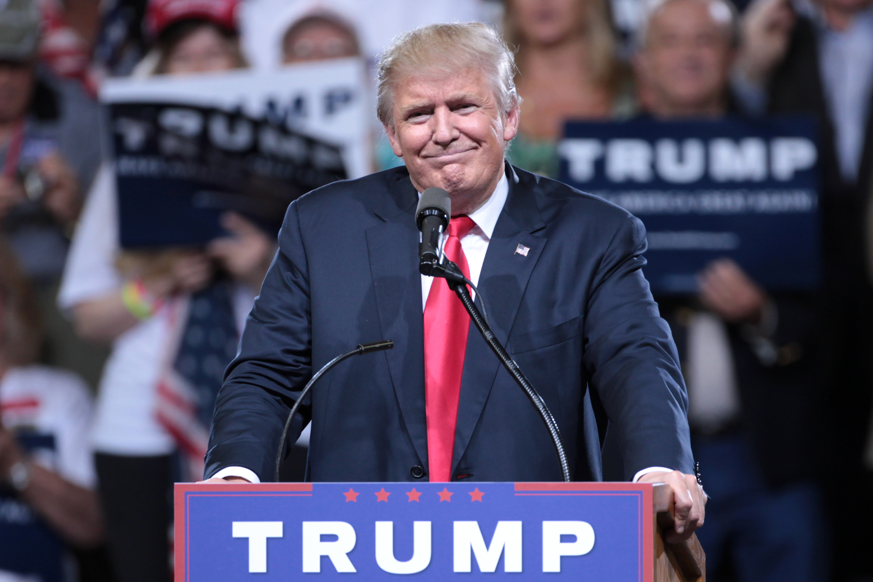 Donald Trump speaking with supporters at a campaign rally at Veterans Memorial Coliseum at the Arizona State Fairgrounds in Phoenix, Arizona.